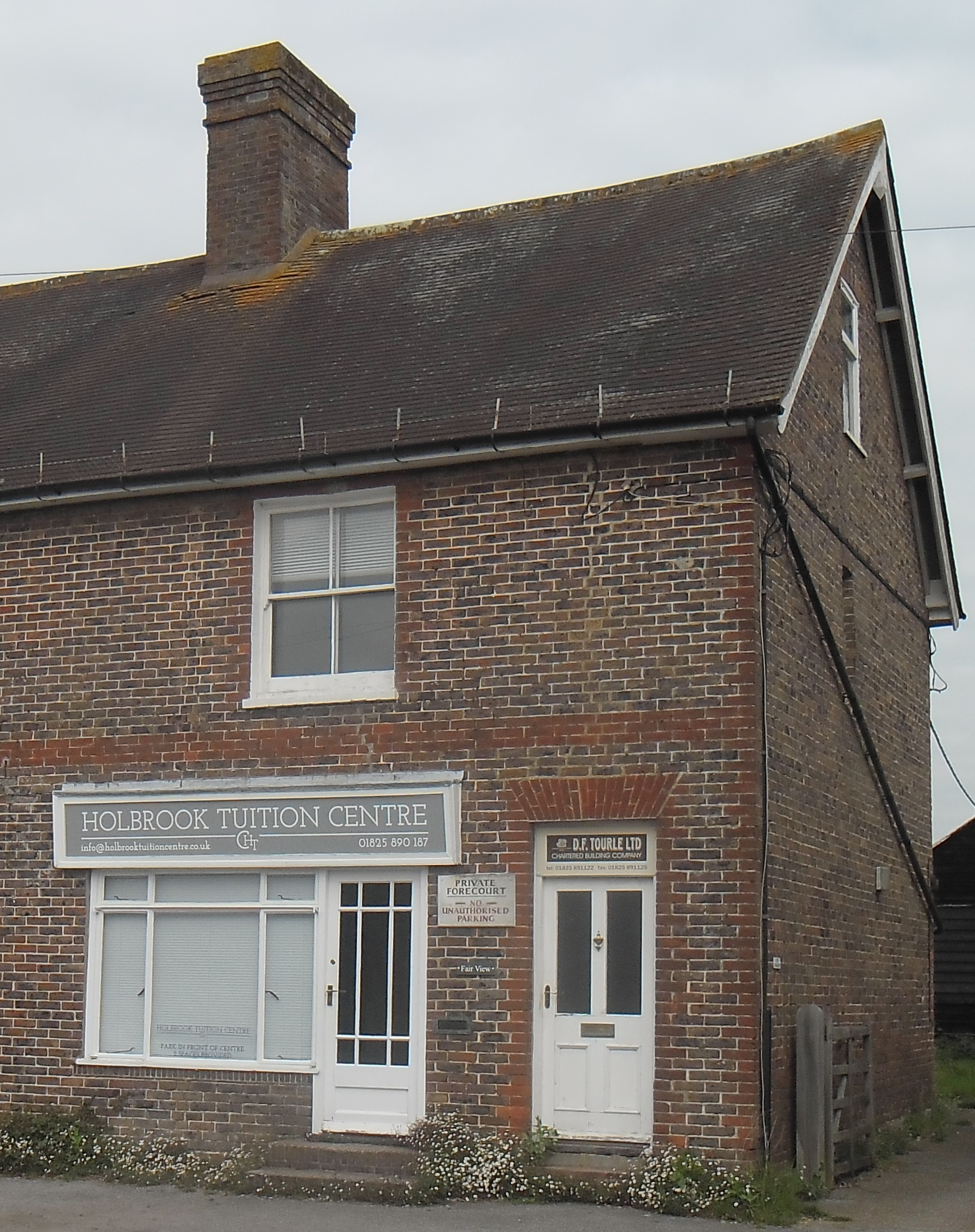 Cram School UK